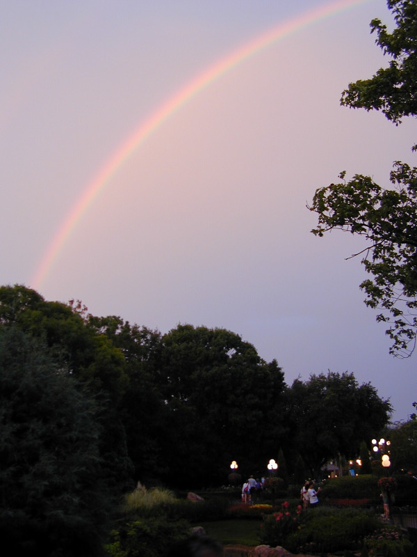 A rainbow arches over the gardens at the Canada pavilion at Epcot in Walt Disney World, Lake Buena Vista, Florida, United States.